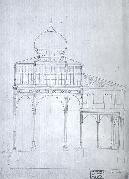 Section of the Palm house (not receive) on the Pfaueninsel near Berlin, Germany